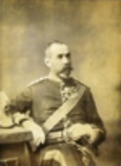 John Soame Richardson was a British Army officer and Commander of the Forces in colonial New South Wales.